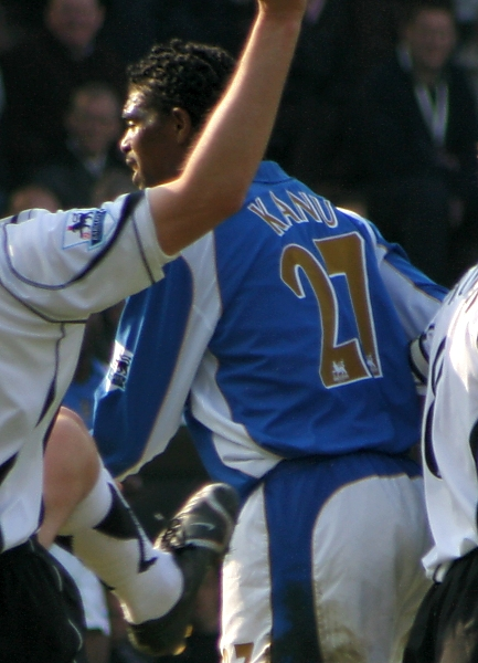 Nwankwo Kanu playing for Portsmouth at Fulham, 31 March 2007. The image was taken with a Canon EOS 400D, with a Sigma 70-300mm lens